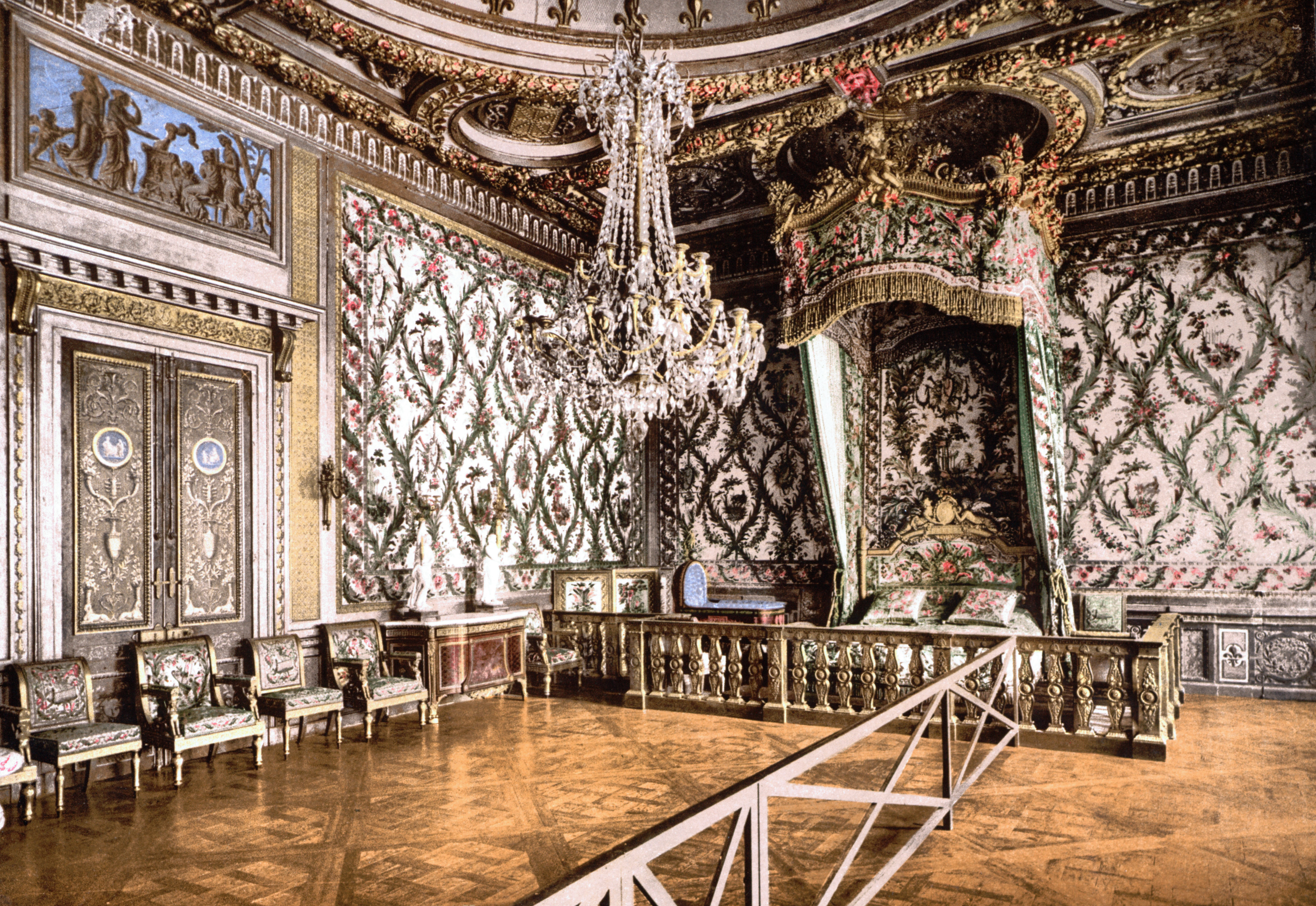 Château of Fontainebleau, bedroom of Marie Antoinette